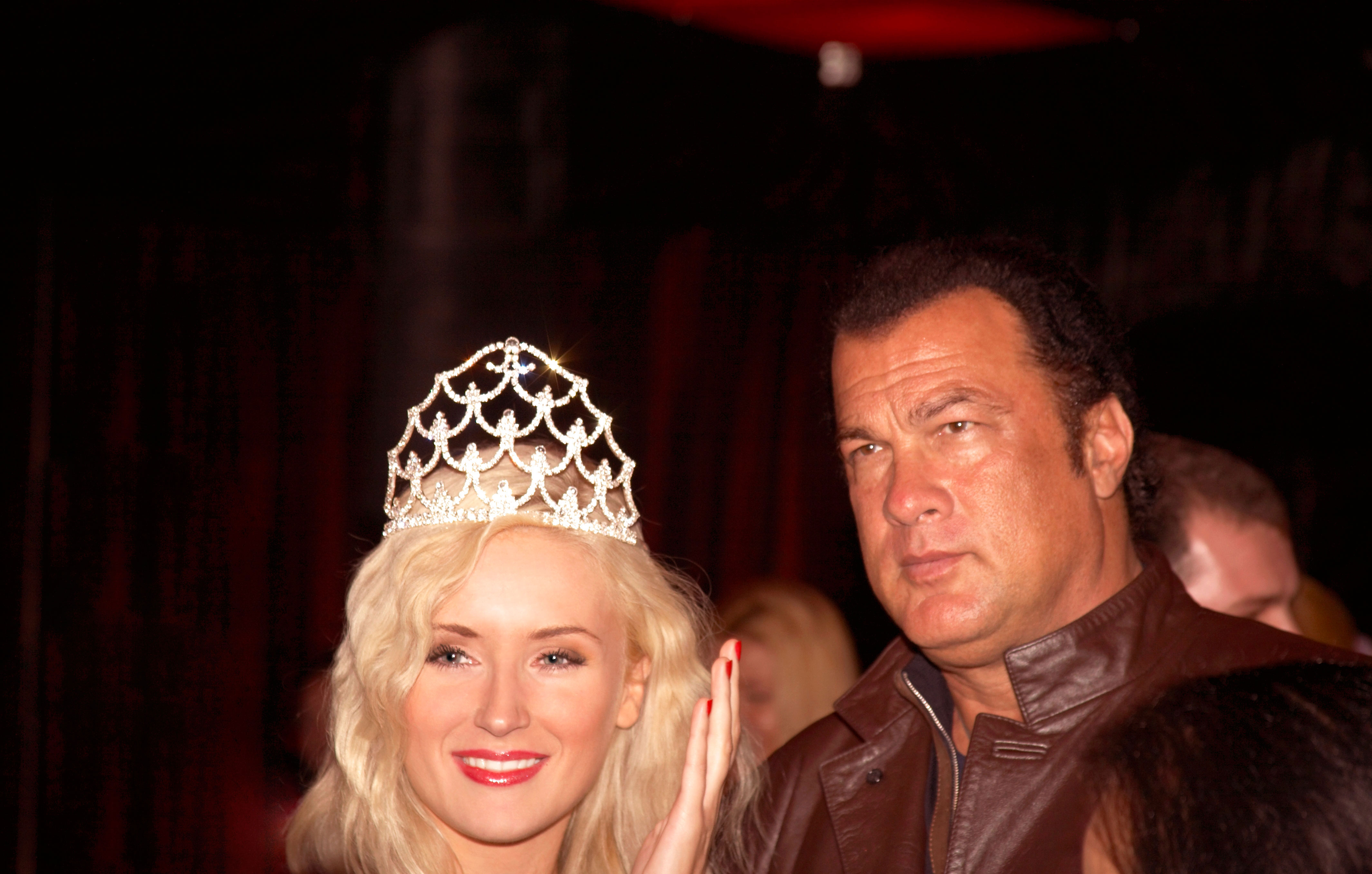 Diana Starkova crowned Miss Ukraine by Steven Seagal and announced as an actress in his new film